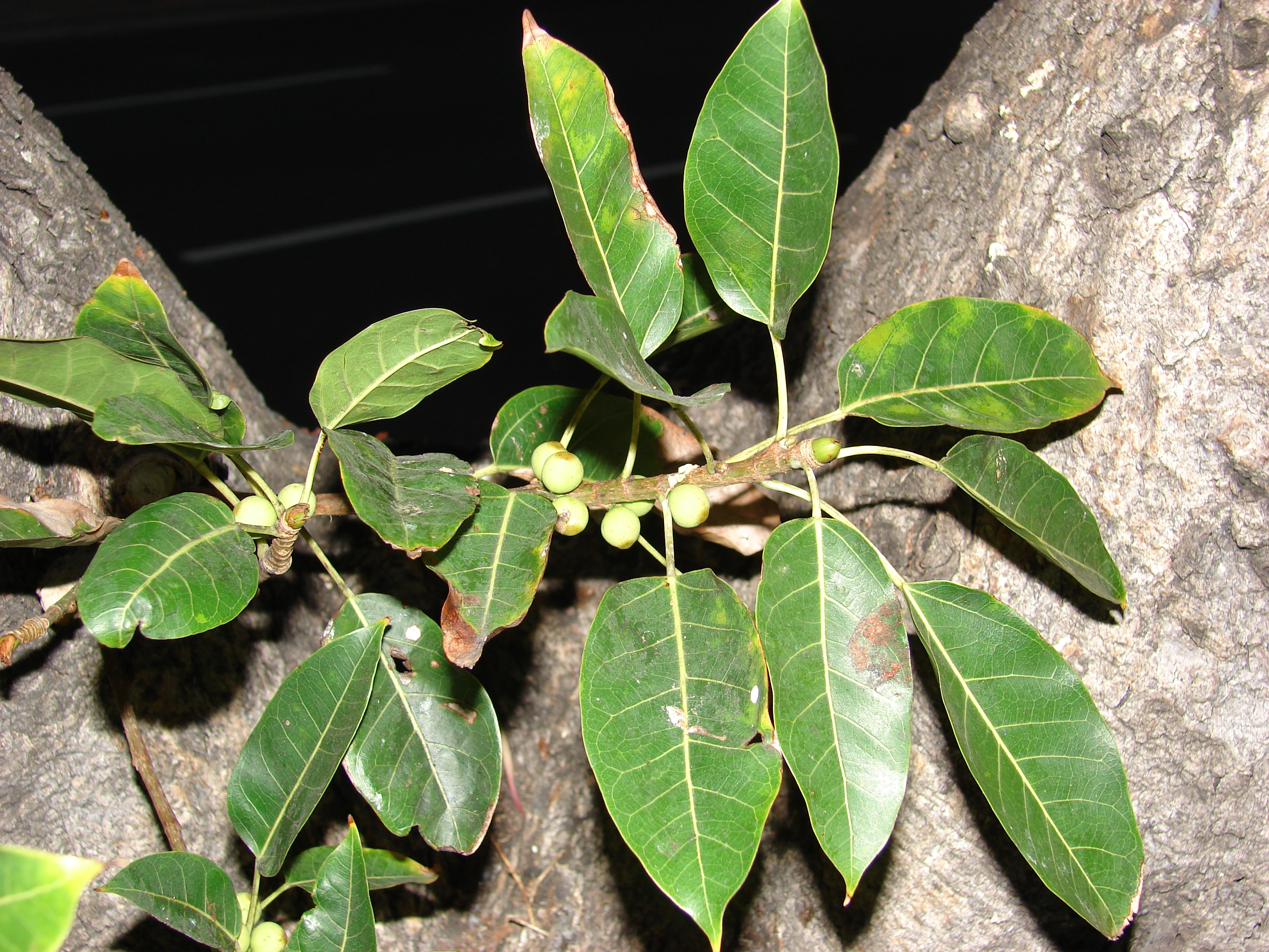 Ficus nota (leaves and fruit). Location: Oahu, Near Ala Moana Blvd